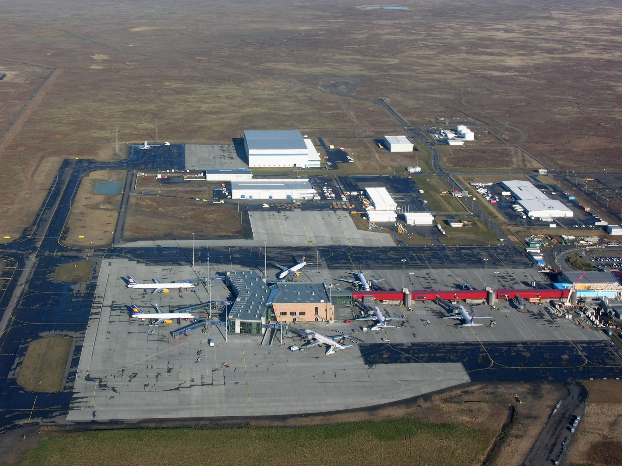 Iceland , Aerial view of Keflavik International Airport